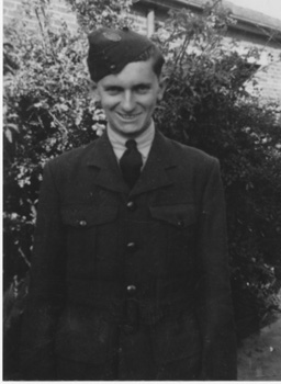 Australian historian Lionel Gilbert at home in Burwood, N.S.W. on leave from radar operator's school in Richmond, N.S.W. Gilbert served in the Royal Australian Air Force from 1943-46.